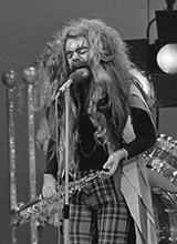 Wizzard in AVRO's TopPop (Dutch television show) in 1974